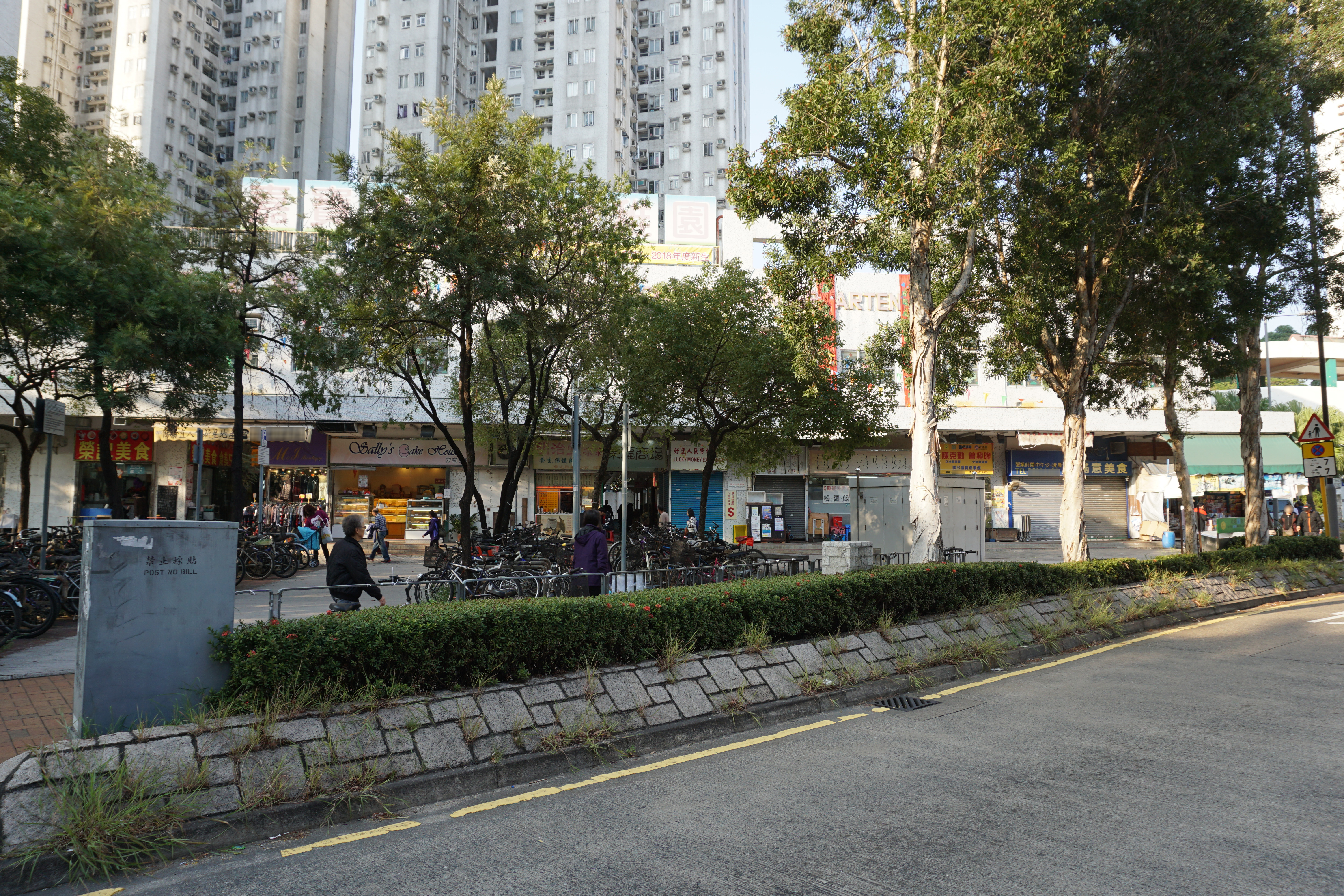 Wing Fok Shopping Centre in Luen Wo Hui, Hong Kong.